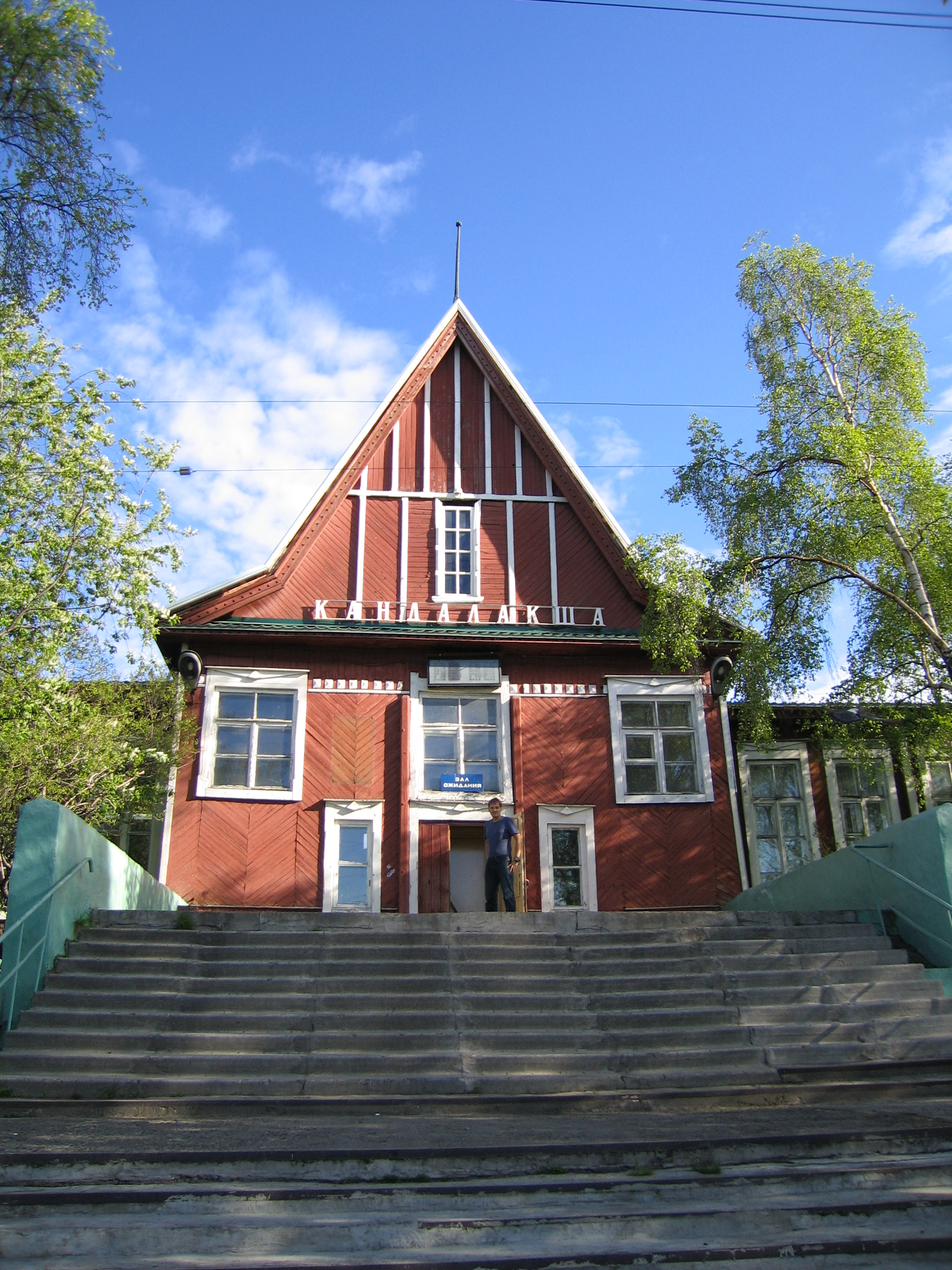 Author=Sergey Dukachev Date=09/06/2006